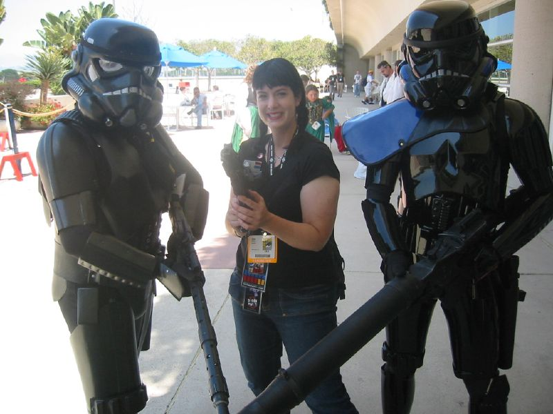 writer Bonnie Burton poses with her favorite troopers. Photo by Terri Hodges. Read more about Comic-Con 2007 on the Official blog.